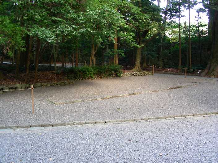 Aramatsuri-no-miya-yohai-sho is a of worship for the Betsugu Aramatsuri-no-miya Sanctuary of Kotaijingu(Naiku), Ise city, Mie prefecture, Japan.